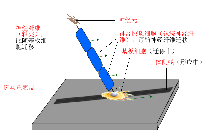 the lataral line formation of the zebrafish. The picture shows how the three cell types move and their dependence. Chinese Subtitle.